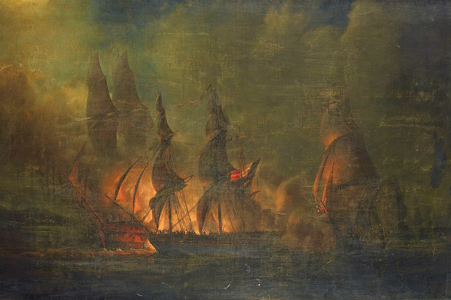 Fight of Sirène against a British division